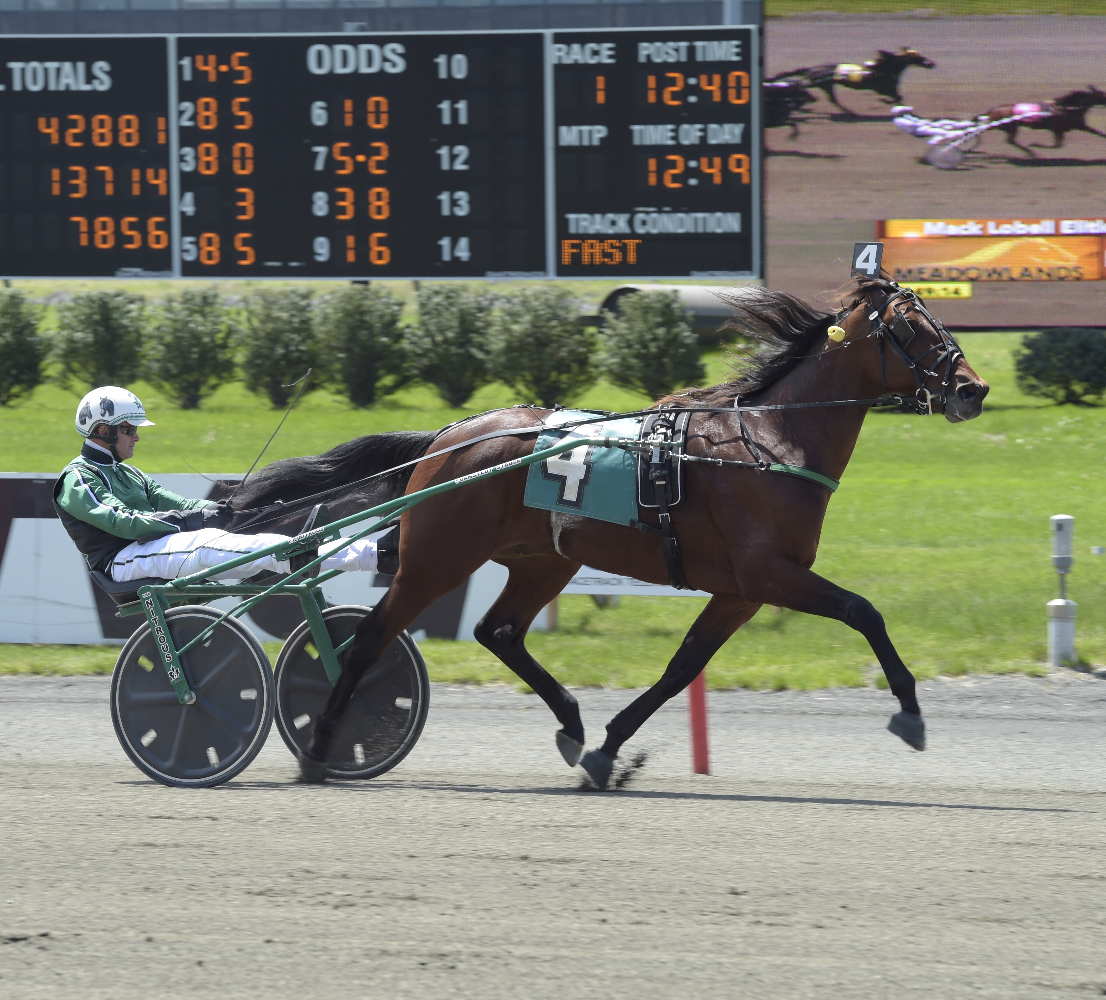 Resolve & Åke Svanstedt in May 2016.